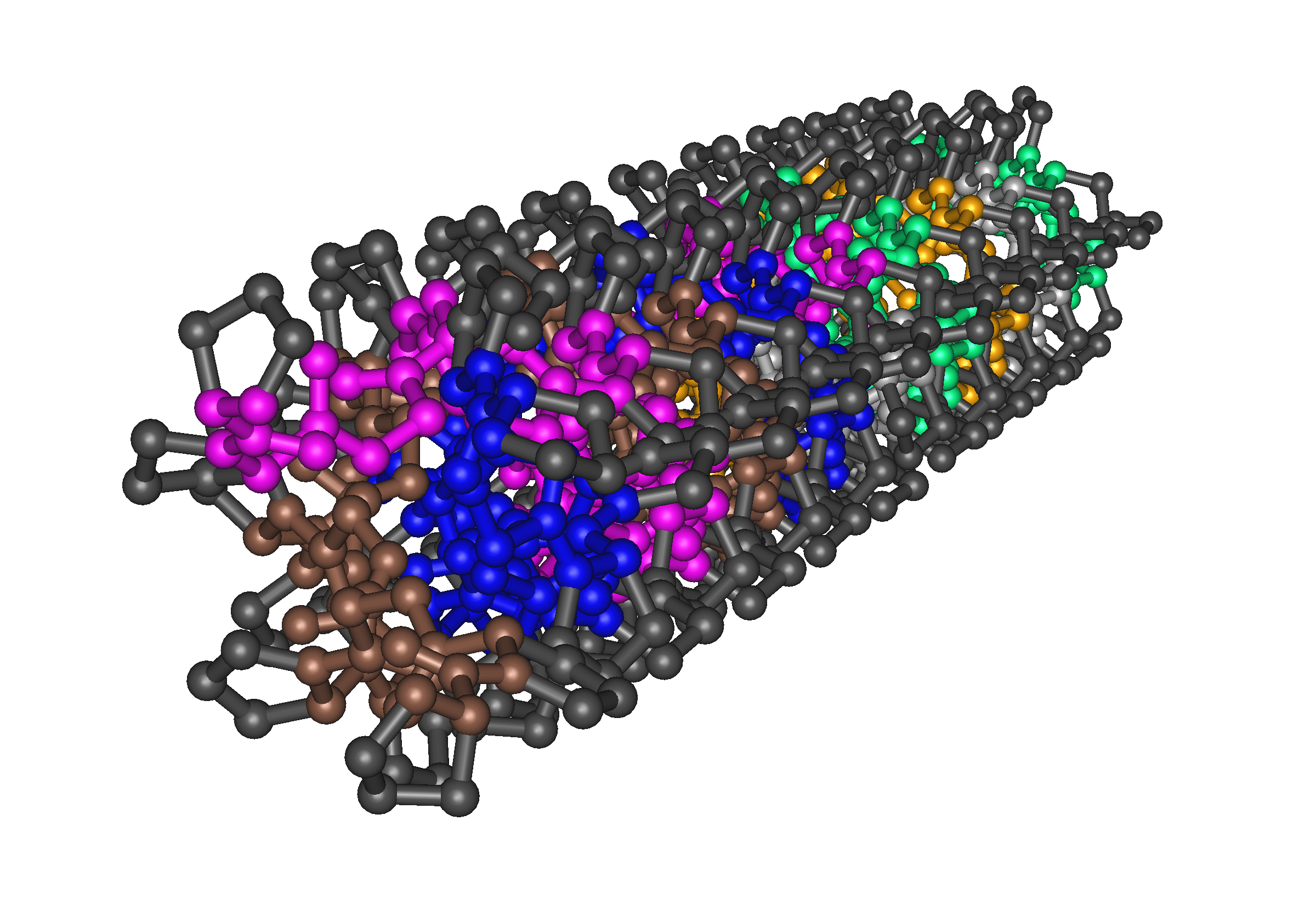 1K6F_Crystal Structure Of The Collagen Triple Helix Model Pro- Pro-Gly103